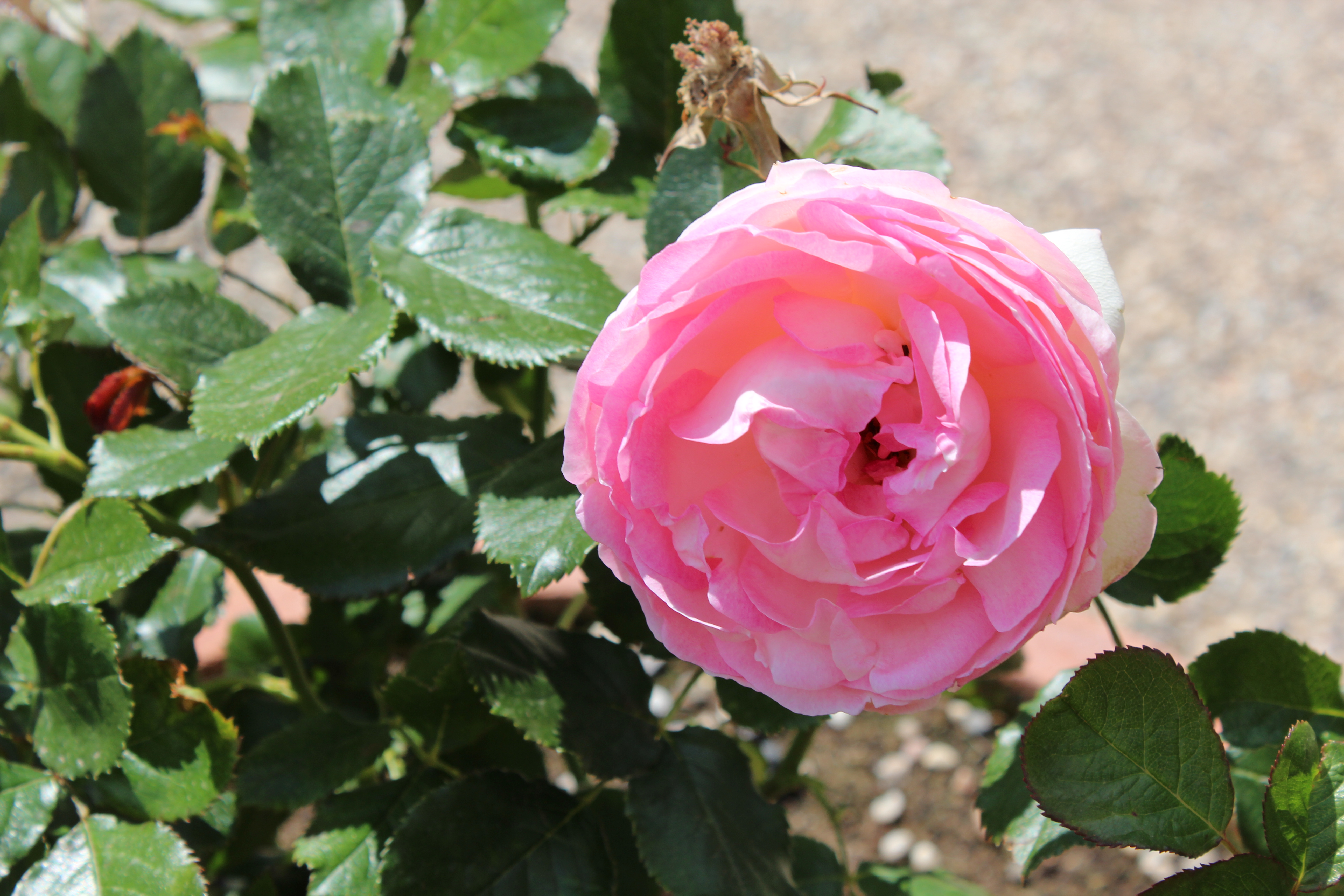 Rose cultivar 'Königin von Dänemark', 1816, castle Bentheim.